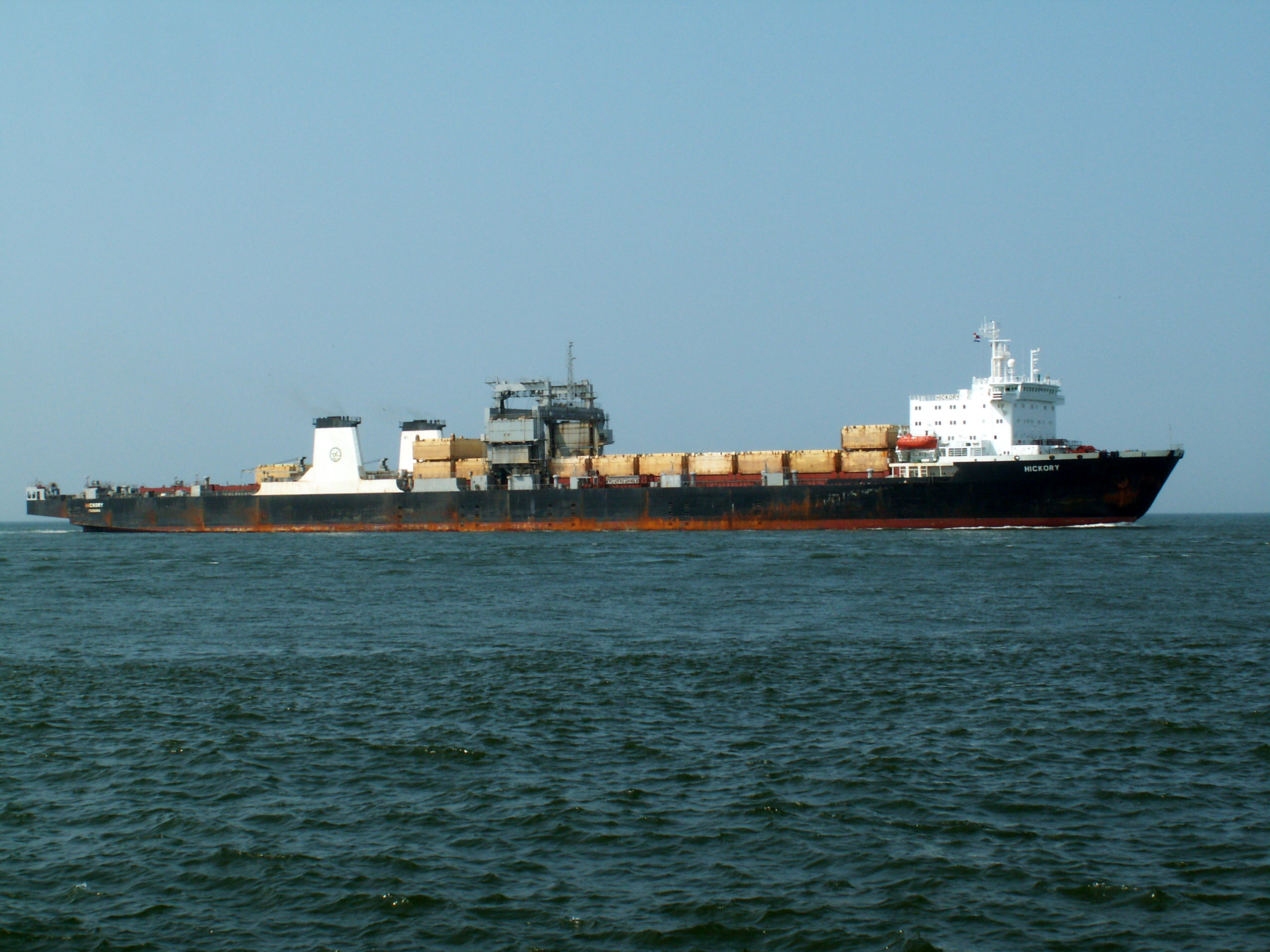 Hickory Port of Rotterdam 25-Jul-2006.